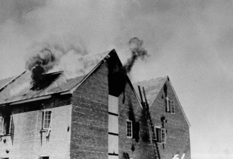 German Village, -Dugway Proving Grounds, test of M69 incendiary bomb. The village was constructed in 1943 in order to perfect firebombing of German residential areas.